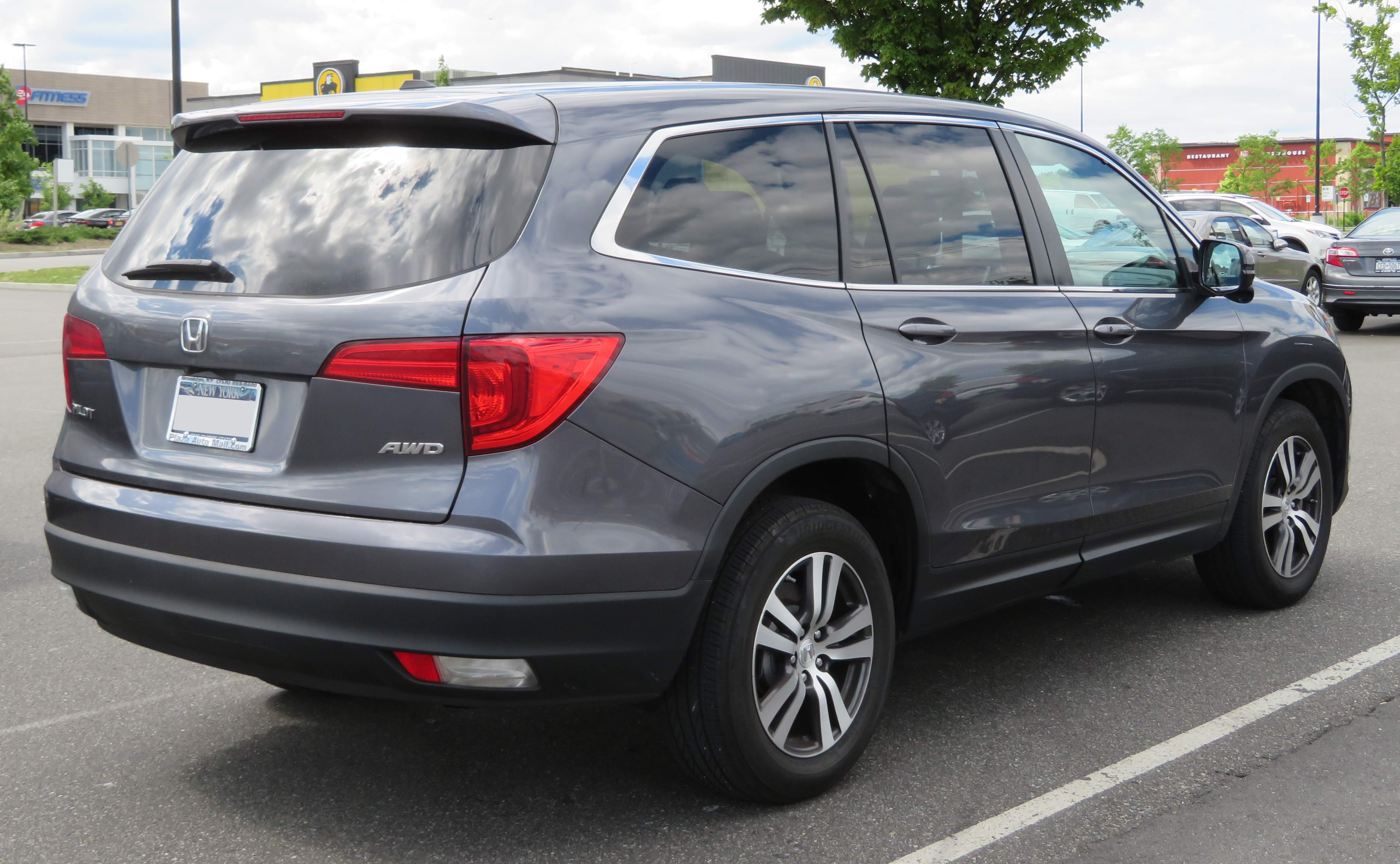 Photographed in Long Island, New York